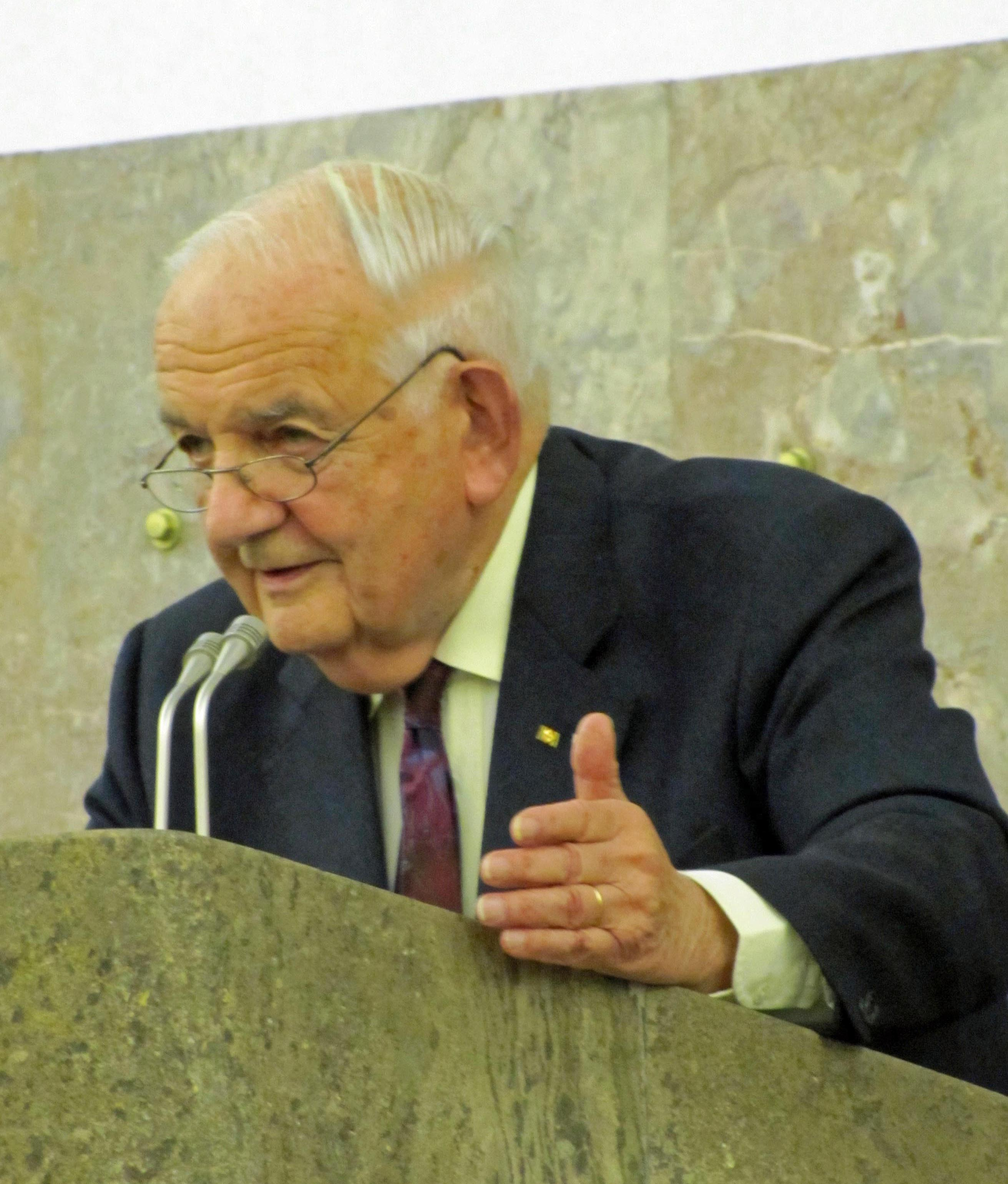 Alfred Grosser, German-French publicist, sociologist and political scientist, 2010 at "Paulskirche" in Frankfurt am Main, Germany